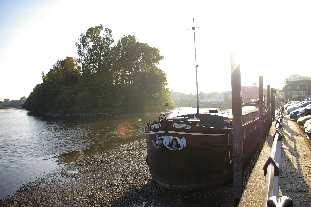 Isleworth Ait and a Thames barge. The Ait (island) is one of London Wildlife Trust's reserves and it is rarely visited by the public.